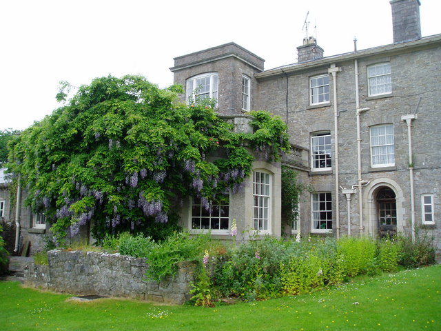 Galltfaenan Hall. The hall, near Trefnant, is now used as a residential home for people with mental disorders and learning difficulties.